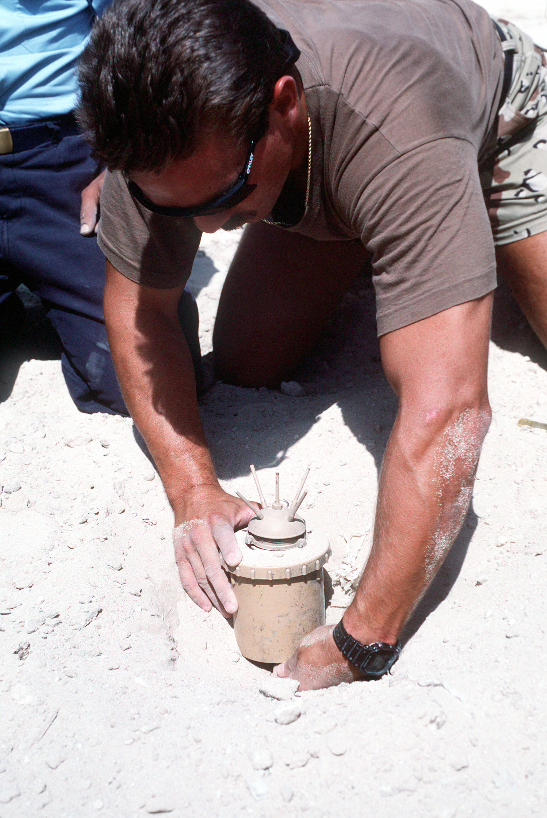 A member of Explosive Ordnance Disposal (EOD) Team 3 demonstrates how to check for anti-handling devices when removing a MINE. EOD Team 3 is conducting a class for Kuwaiti navy EOD personnel during Eager Express '92. He is handling a practice Italian Valmara 69 ANTI-PERSONNEL bounding MINE.